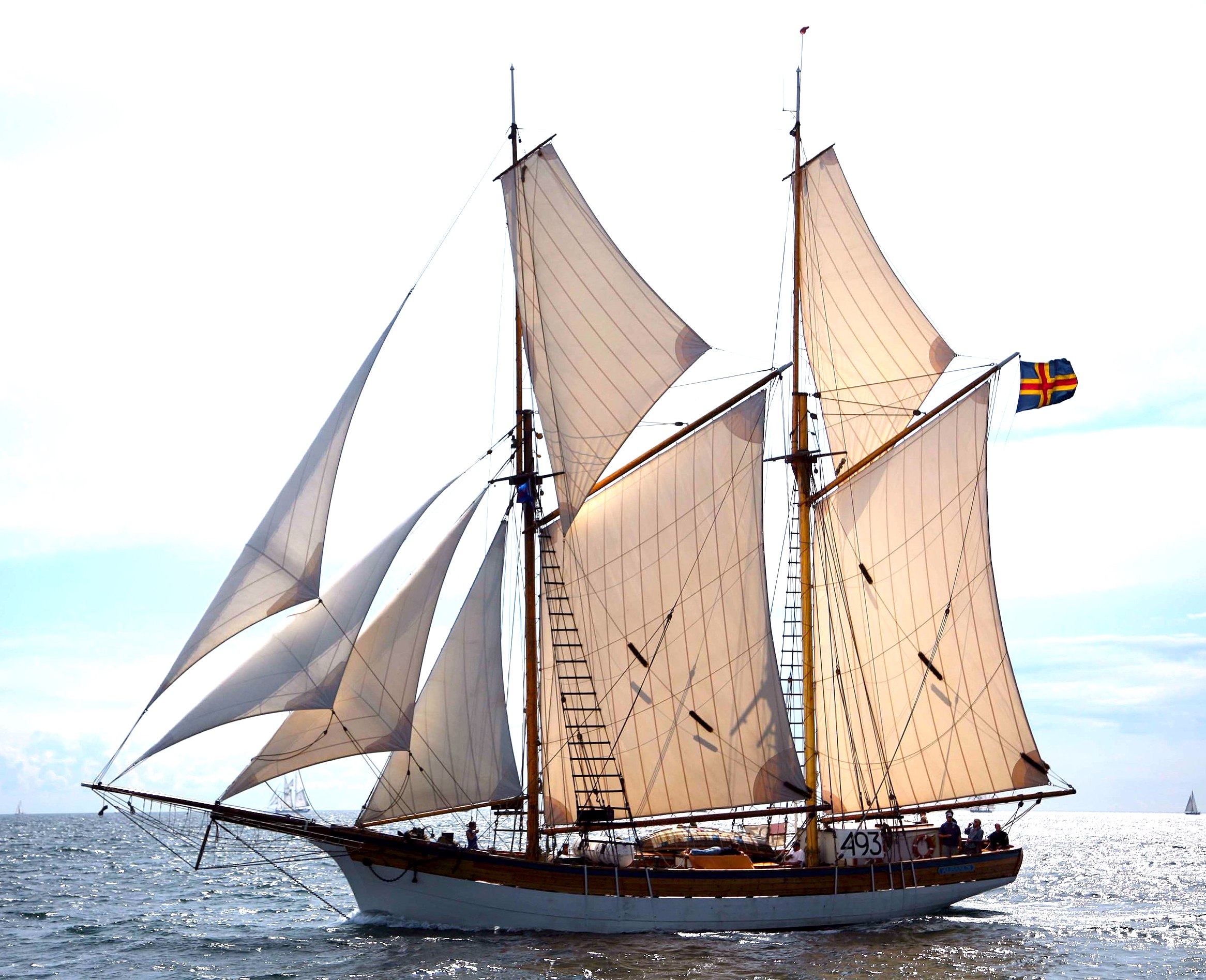 "Albanus" gaff schooner